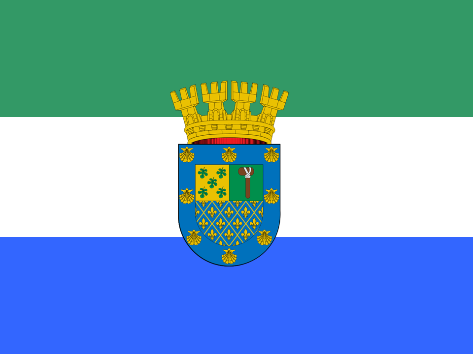 Flag of Peñalolen commune (Chile)